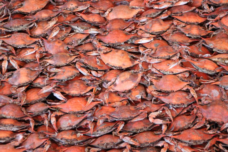 Crabs for sale at the Maine Avenue Fish Market in Washington, D.C.